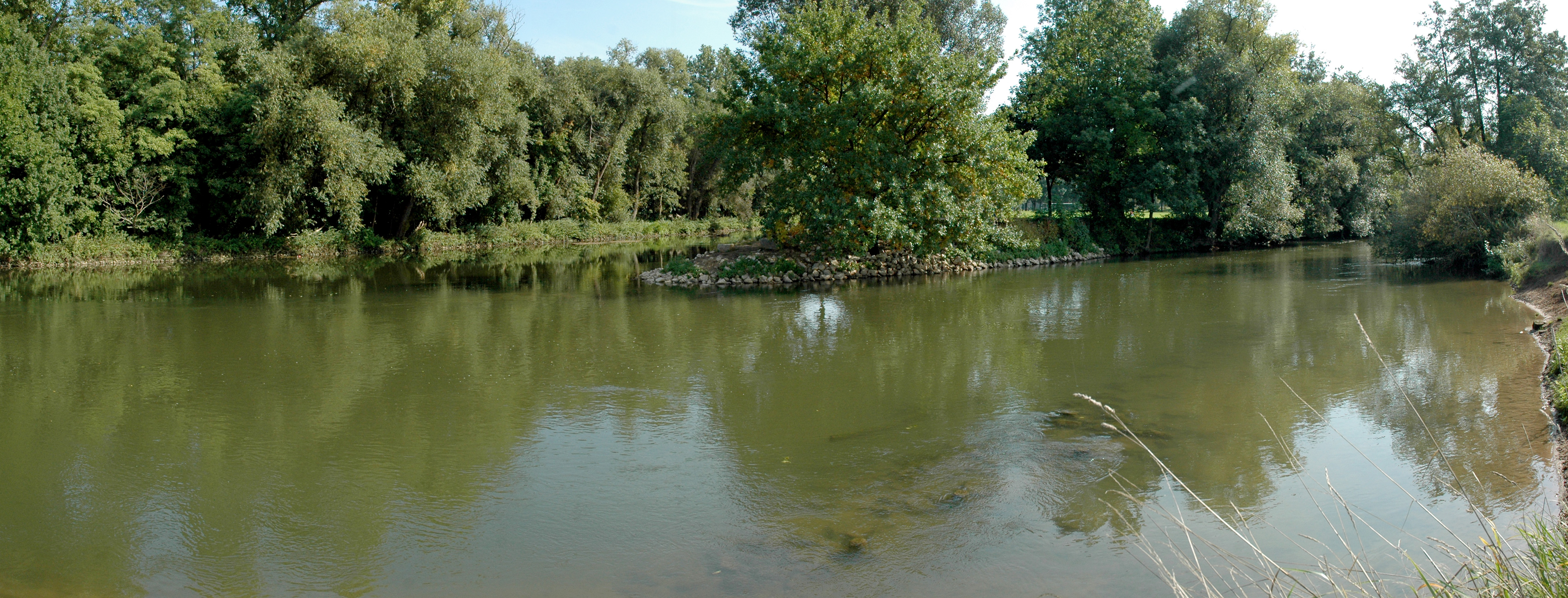 Joining of the rivers Pegnitz and Rednitz to Regnitz in Fuerth/Bavaria, Germany.